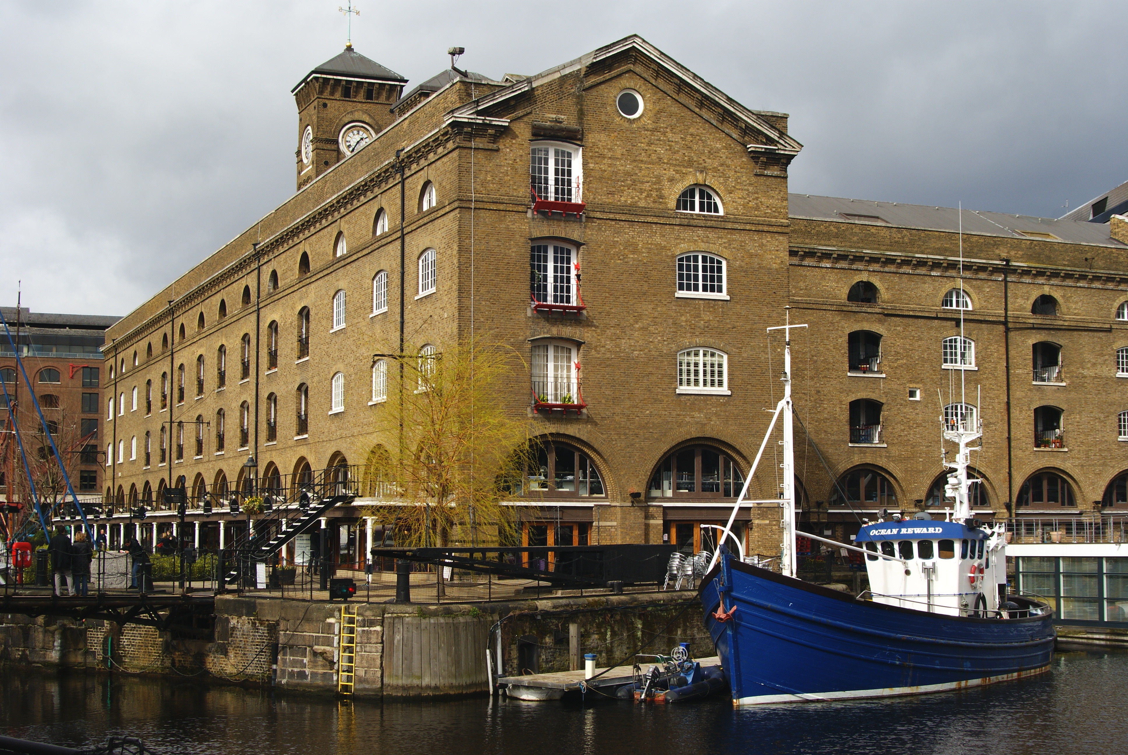 Ivory House, St.Katharine Docks, London Looking towards the former warehouse (now shop units, on the ground floor), from outside the Dickens Inn. A late March day, on which the weather could not make up its mind as to what it would do; luckily, it stayed dry. (The boat in the foreground is Ocean Reward, a houseboat/recreational boat built in 1969). Note the traces of the removed lucarne above the loading doorways, and the resulting gap in the parapet.